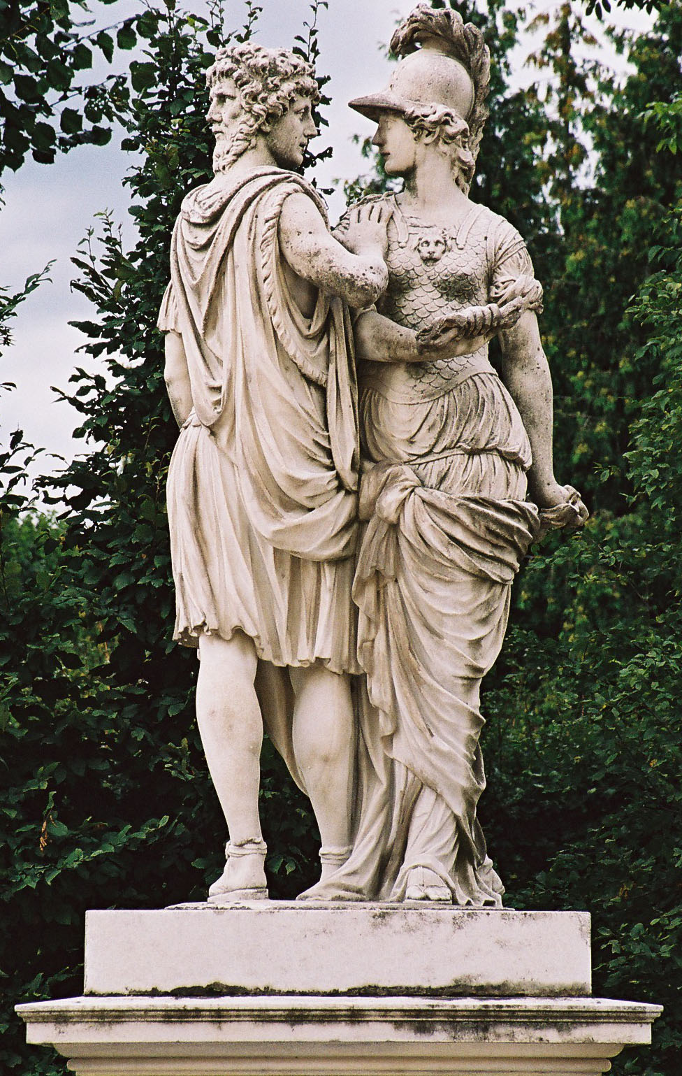 Vienna, Schönbrunn gardens, statue Janus and Bellona